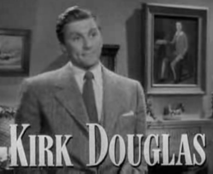 Cropped screenshot of Kirk Douglas from the trailer for the film A Letter to Three Wives